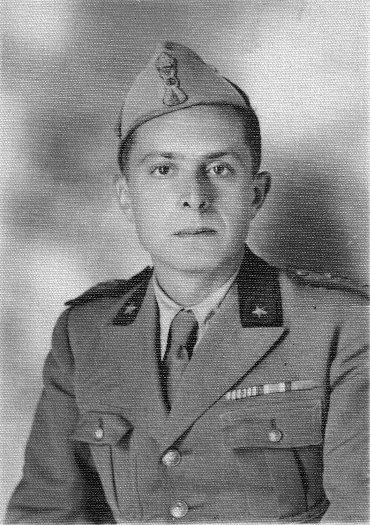 Cesare Cerati in divisa da ufficiale